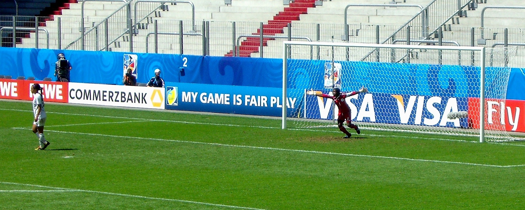 USA-Nigeria at 2010 FIFA U-20 Women's World Cup in Impuls Arena as “FIFA Women's World Cup Stadium Augsburg”: Sydney Leroux (19) after kicking from the penalty mark. She kicked the ball over the goal. Nigerian goalkeeper Alaba Jonathan (1).